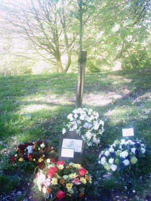 Amicus Workers Memorial Tree, with floral tributes, Astley Park, Chorley, Lancashire